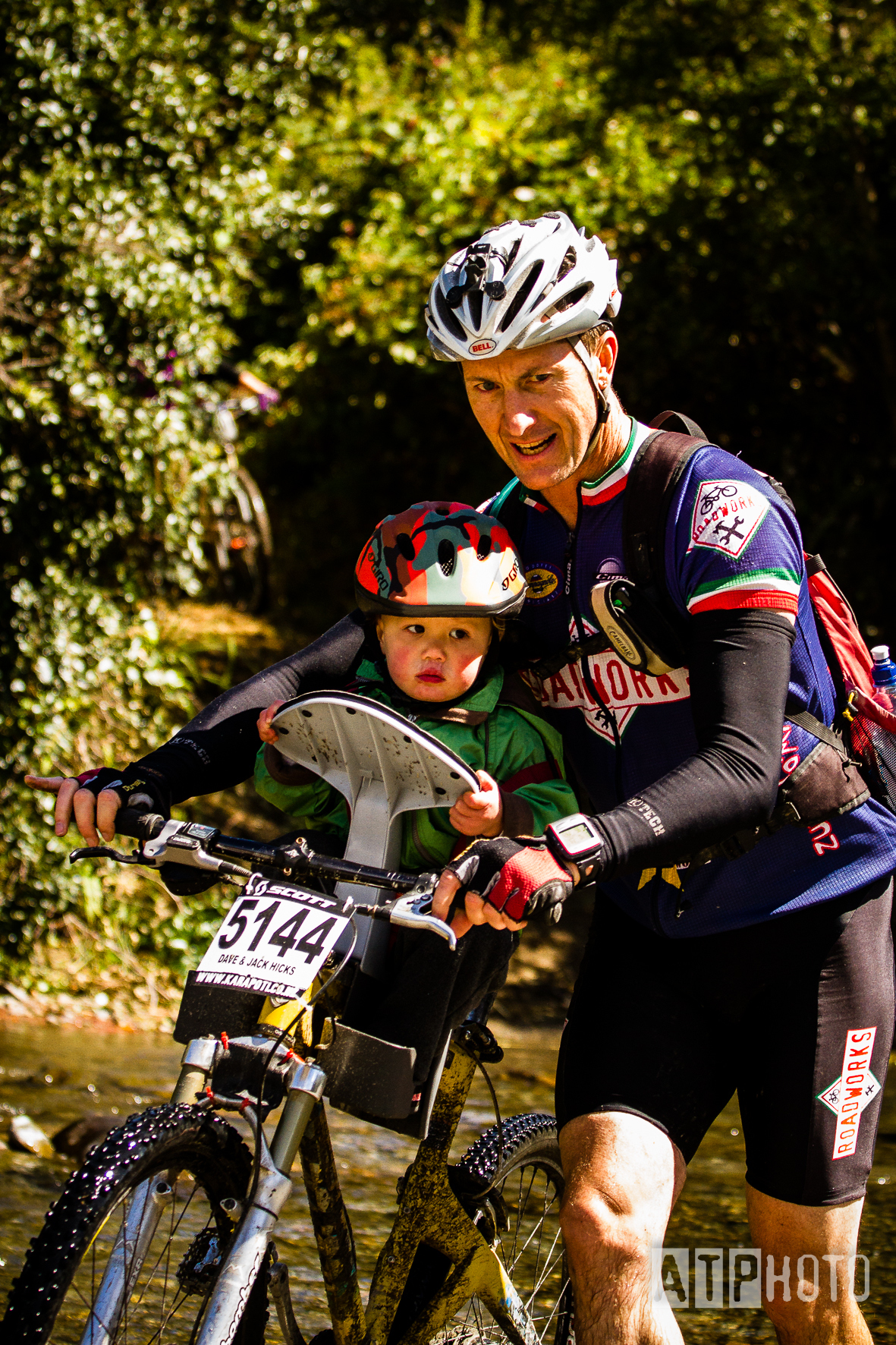 2014 Karapoti Classic. Dave Hicks, husband of Robyn Wong, with their son Jack.